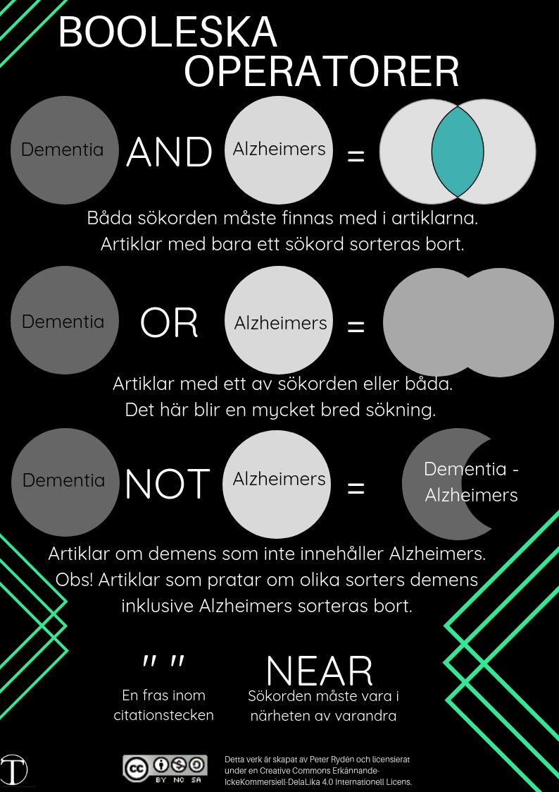 Picture explaining the boolean operators in Swedish.